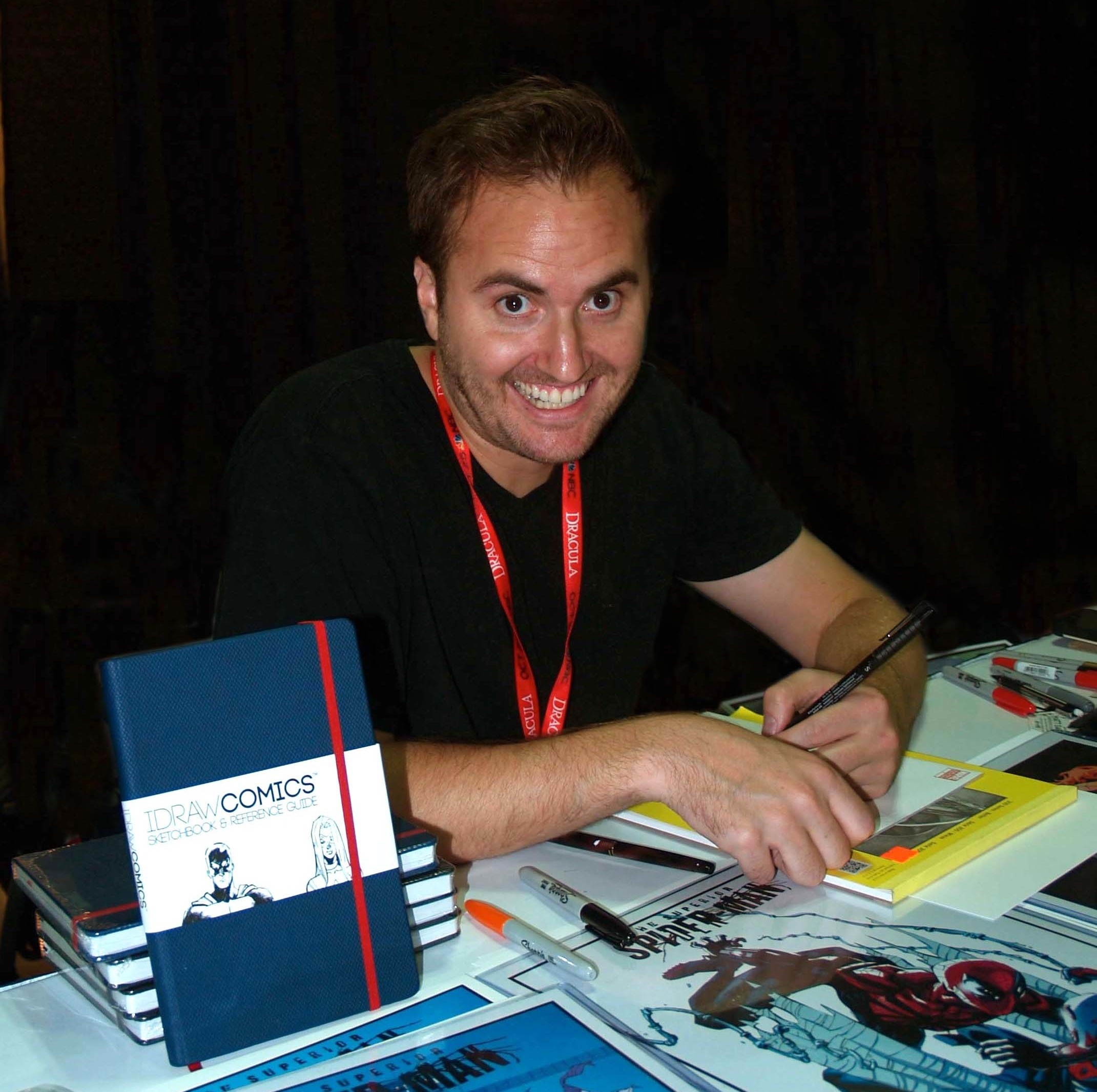 Comics creator Ryan Stegman on Saturday, October 12, 2013 at the Jacob K. Javits Convention Center in Manhattan, Day 3 of the 2013 New York Comic Con. This photo was created by Luigi Novi. It is not in the public domain, and use of this file outside of the licensing terms is a copyright violation.